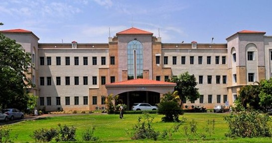 Administrative block ,KITS Warangal